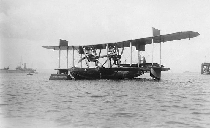 A Phoenix P.5 Cork MkII flying boat (N.87).